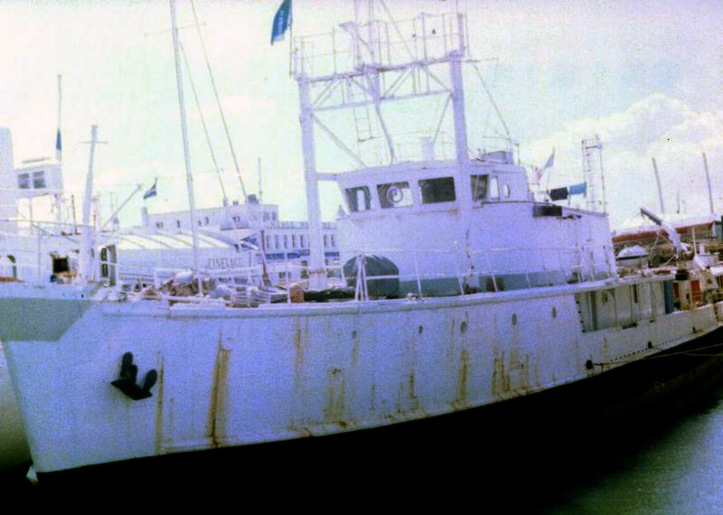 The Calypso, boat of Commandant Cousteau, in La Rochelle.